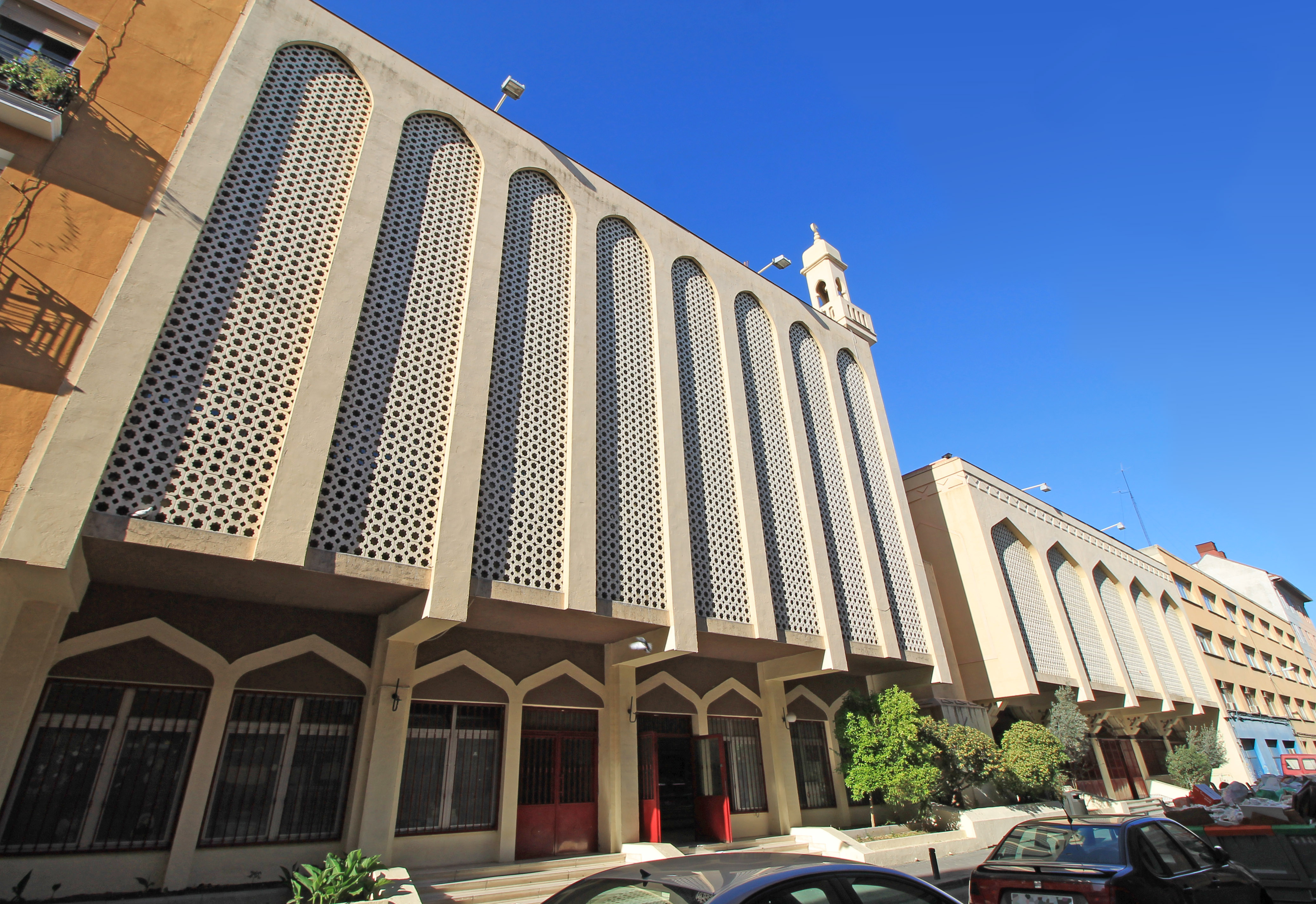 Façade of Madrid Central Mosque (Spain).